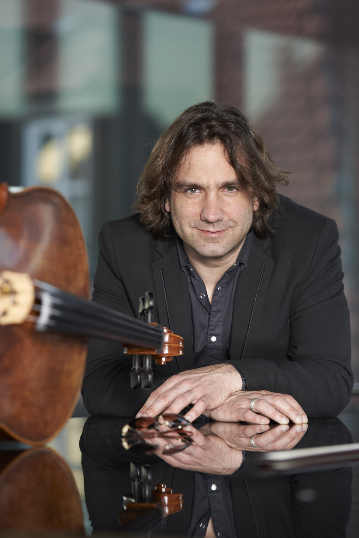 Justus Grimm, german cellist